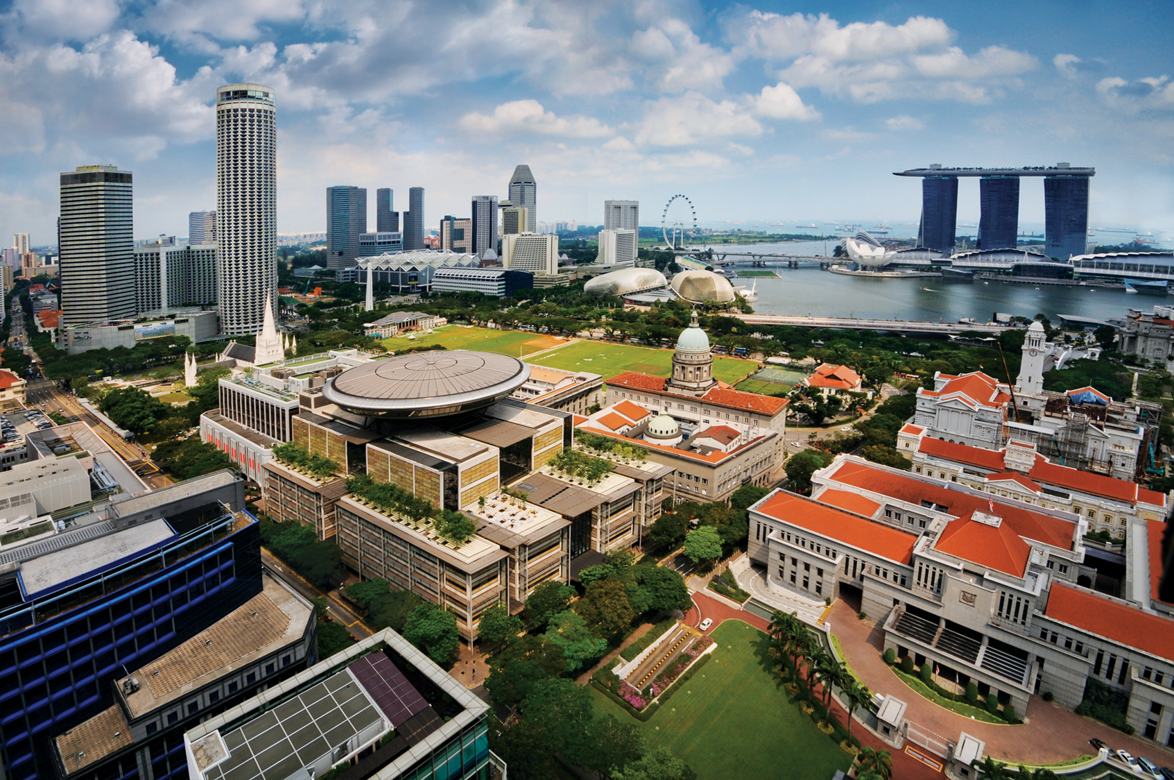 An aerial view of the Civic District of Singapore. The buildings visible include the Supreme Court of Singapore (centre left, with disc), the Old Supreme Court Building (centre right, with dome), and Parliament House (right, with orange roof). In the background are the three towers of the Marina Bay Sands Hotel.